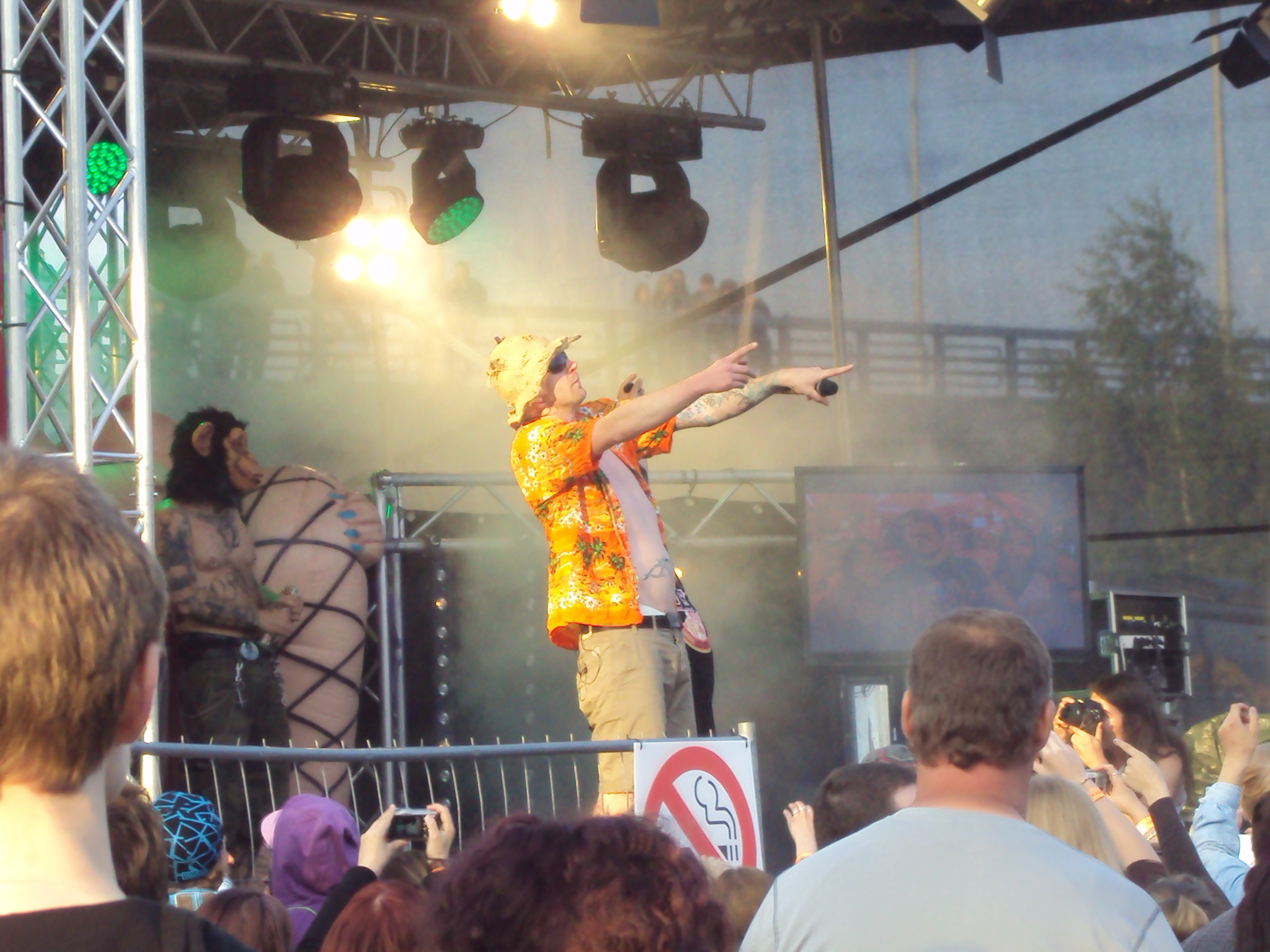 Finnish rap artist Petri Nygård at Sataman yö Festival, Jyväskylä, Finland